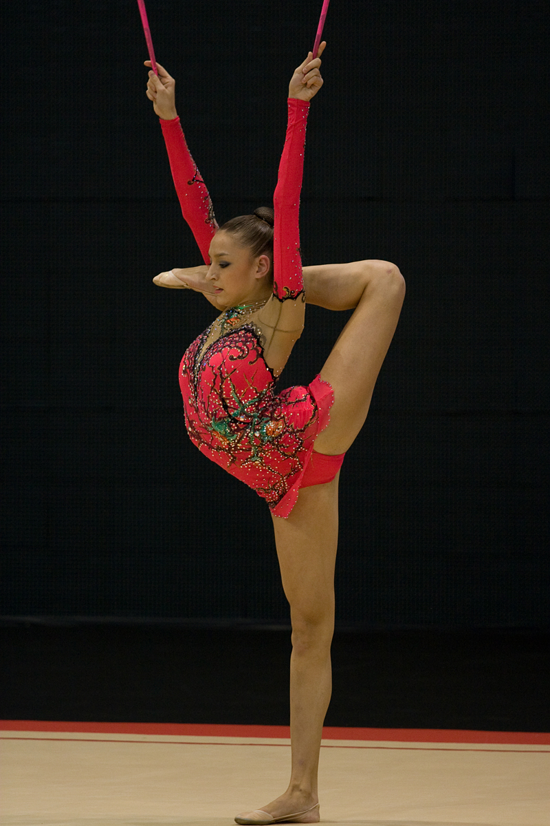 VII World Cup Finals RG (Benidorm ESP)